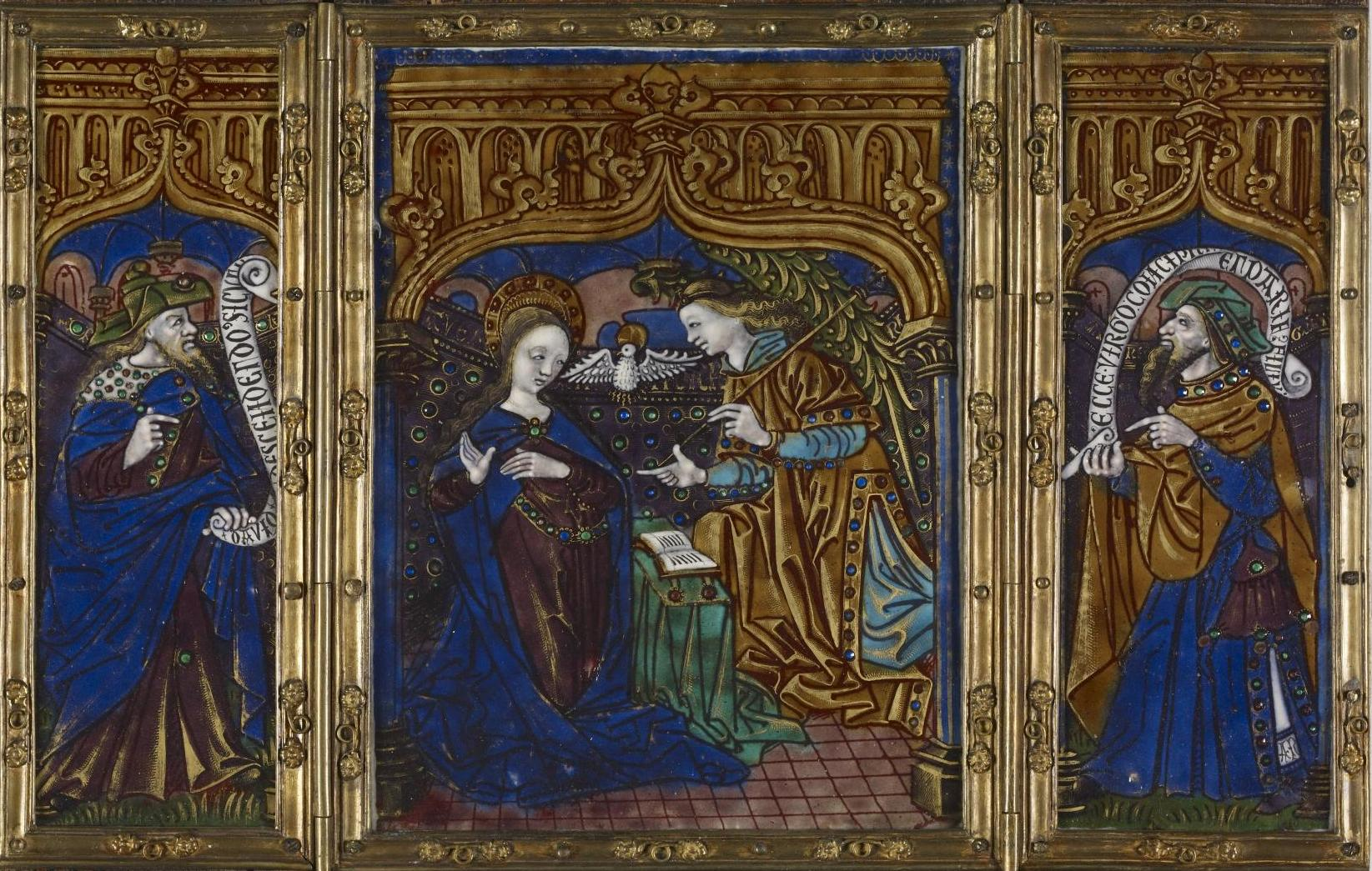 This triptych is the finest of the approximately thirty enamels attributed to the Master of the Orléans Triptych, an anonymous artist steeped in the gothicism of the 15th century. The scene of the Annunciation is accompanied by the two prophets David and Isaiah, who hold banderoles with Old Testament inscriptions. The flesh tones on this triptych are particularly subtle. These were produced by painting a russet-red area on the white ground and placing over this a transparent blue, giving it a violet tinge. By varying the thickness of the opaque white which was applied over this violet area, the artist was able to establish shaded and lighted areas which model the face and hands. The contours of the faces were produced by "enlevage," a process in which either dotted or continuous lines were scratched through the powdery white enamel revealing the darker layer underneath.